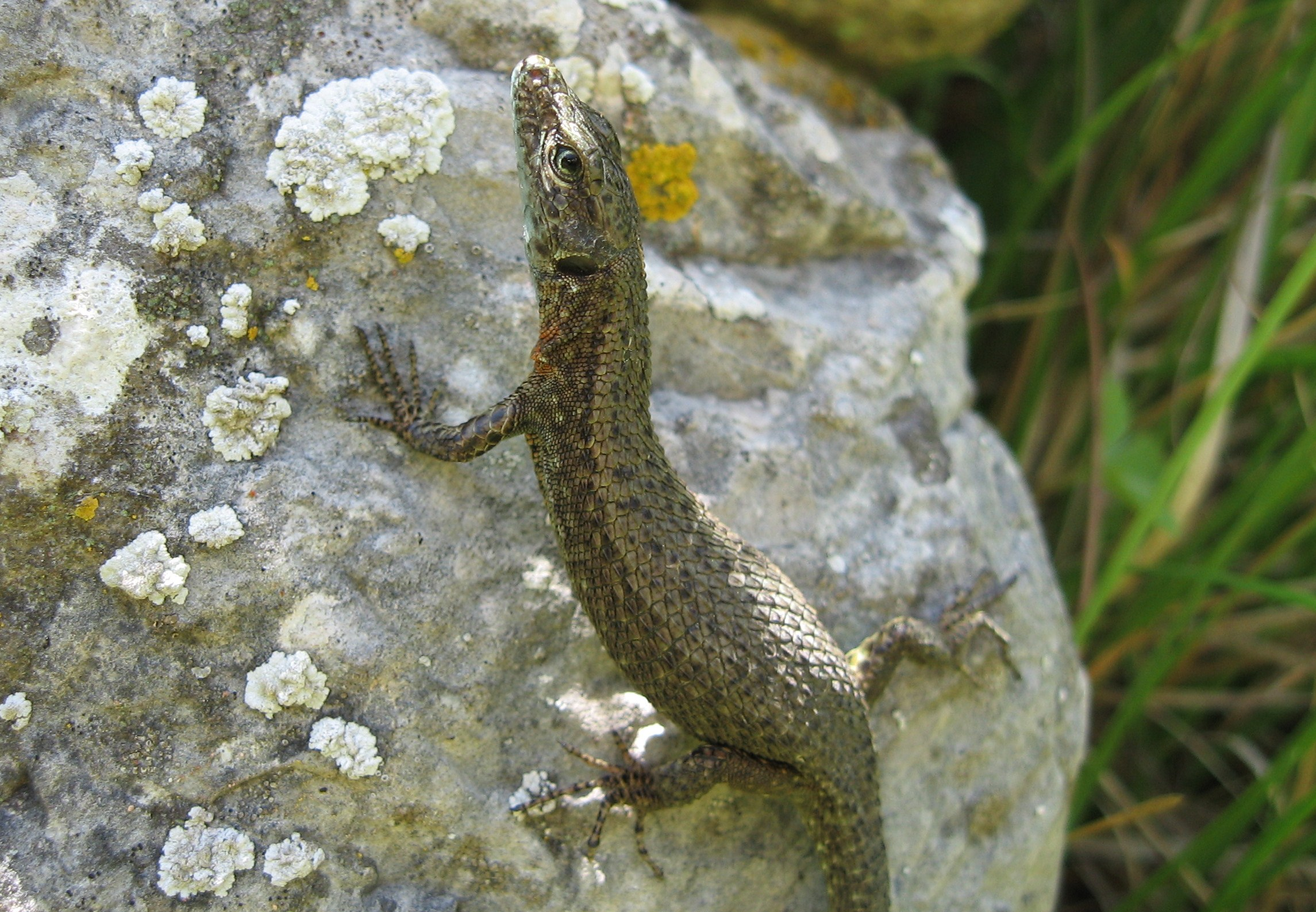 Female specimen of the lizard Algyroides nigropunctatus from Istria/Croatia.